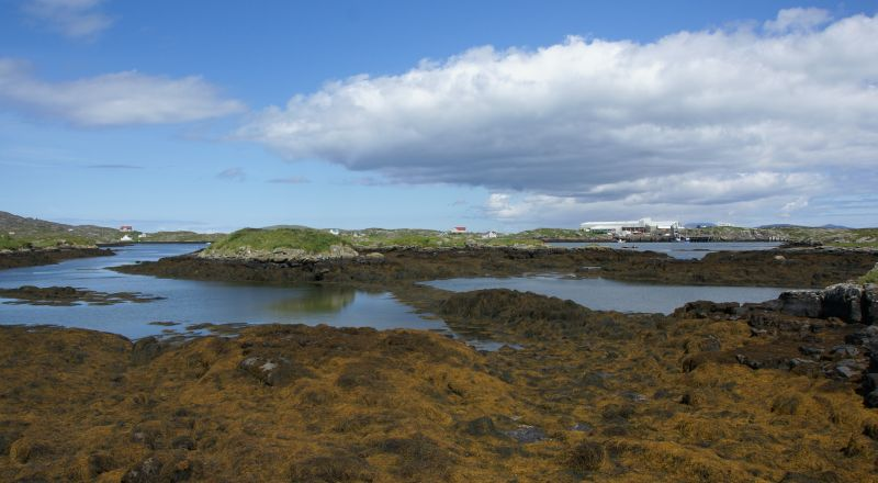 Islet with broch, Bruernish, Barra, Scotland.